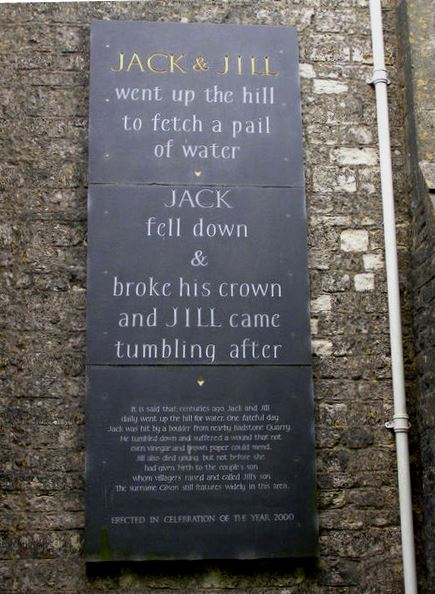 Jack & Jill Plaque This Plaque is found at Kilmersdon C.of E. VA Primary School. The Jack & Jill millennium project in 1999 discovered a medieval well here, 38 feet deep, and built a well head over it. See 862197 Beside this plaque are children's slate drawings depicting the famous nursery rhyme.